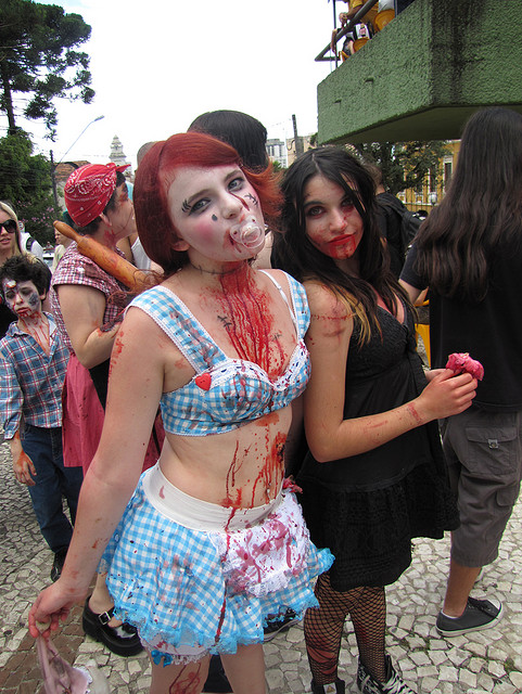 Zombie Walk 2010 - Curitiba